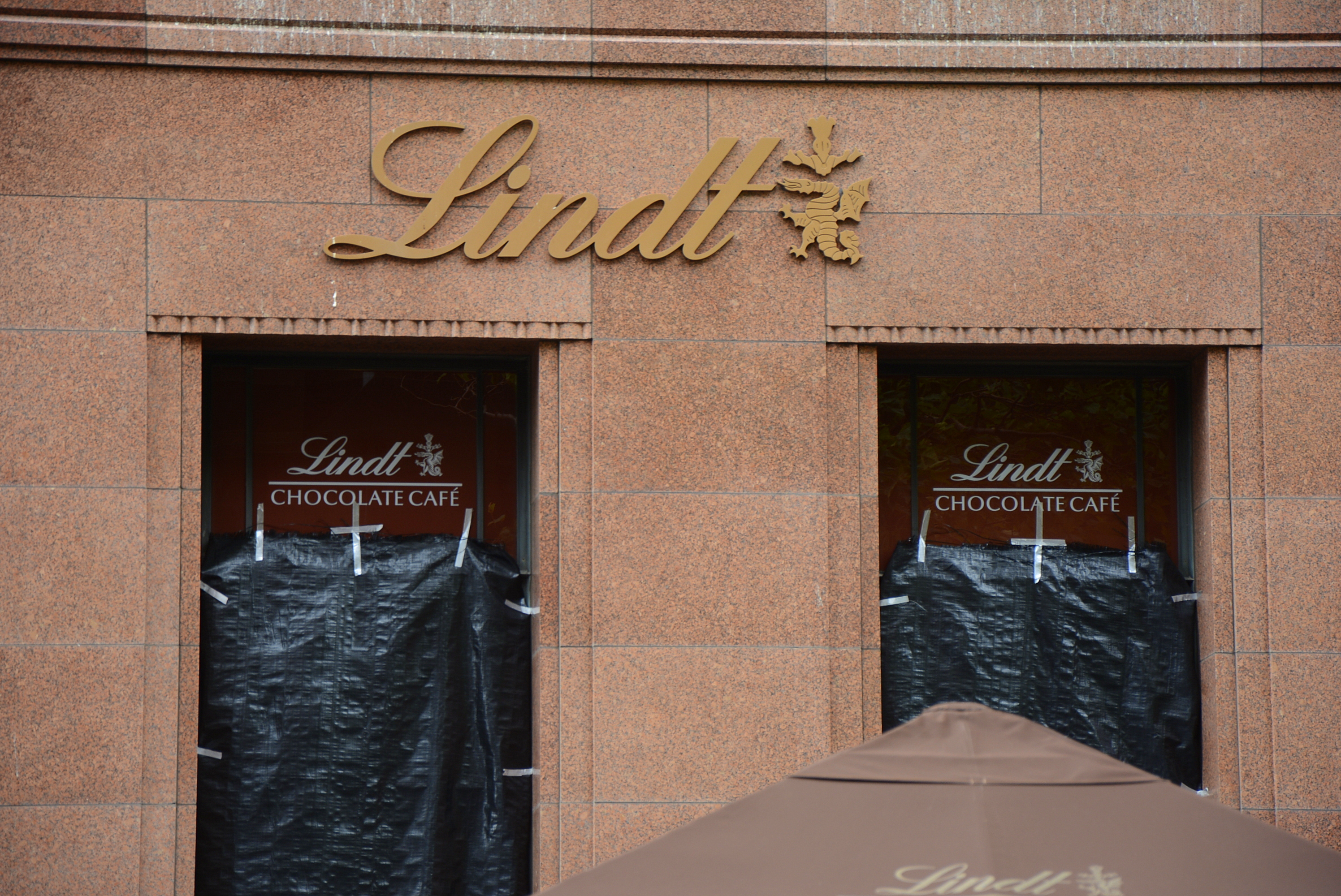 Lindt Café two days after siege, Martin Place, Sydney